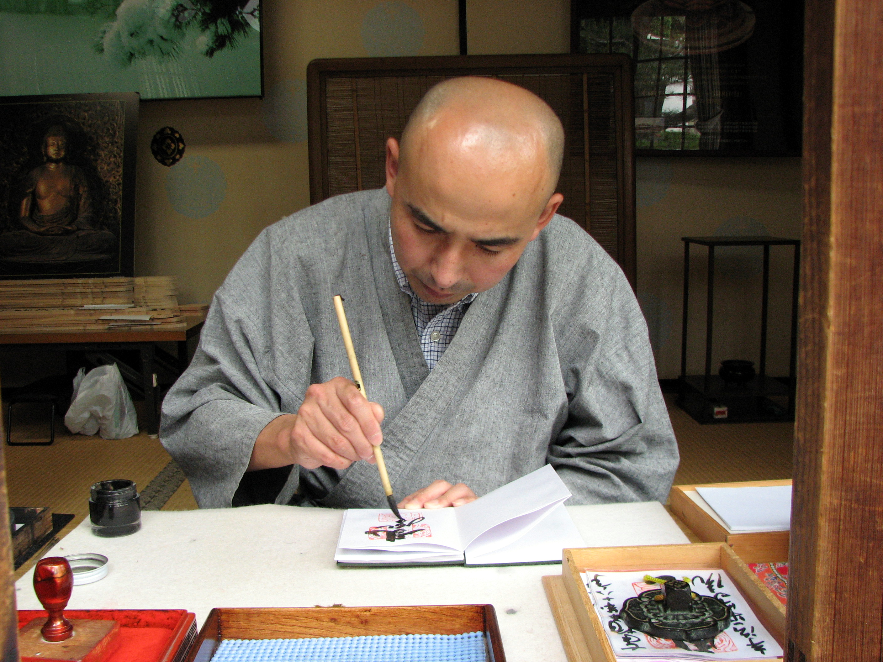 A monk signing a temple book at the Byodo-in